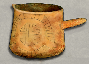 A reconstruction of a ceramic beaker from the Cahokia Mounds site near Collinsville, Illinois. The engraving on the beaker is thought to represent a timber circle woodhenge. Beaker is reconstructed from a ceramic fragment with the design and similar shaped whole beakers. This sort of beaker has been shown to have connections to Black Drink Ceremonialism, as several examples have been shown through analysis of chemical compounds in residue left on the inside of the containers to have been used for the beverage.